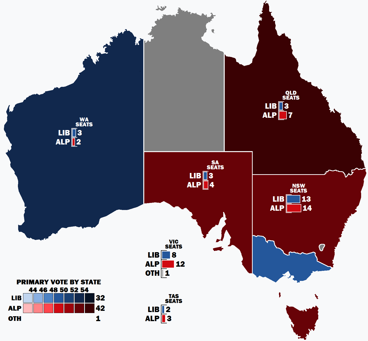 Result of the primary vote by state in the 1914 Australian federal election.